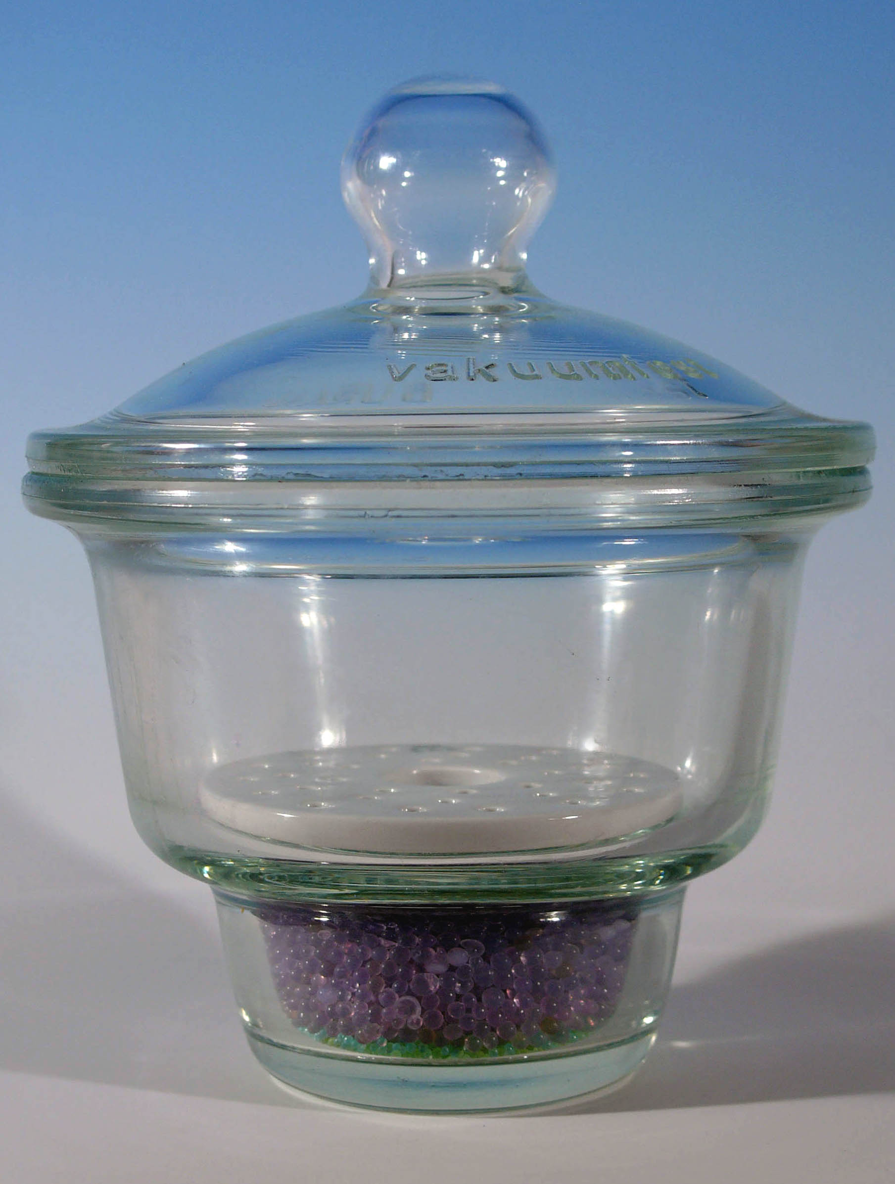 Desiccator with silicagel to keep samples dry